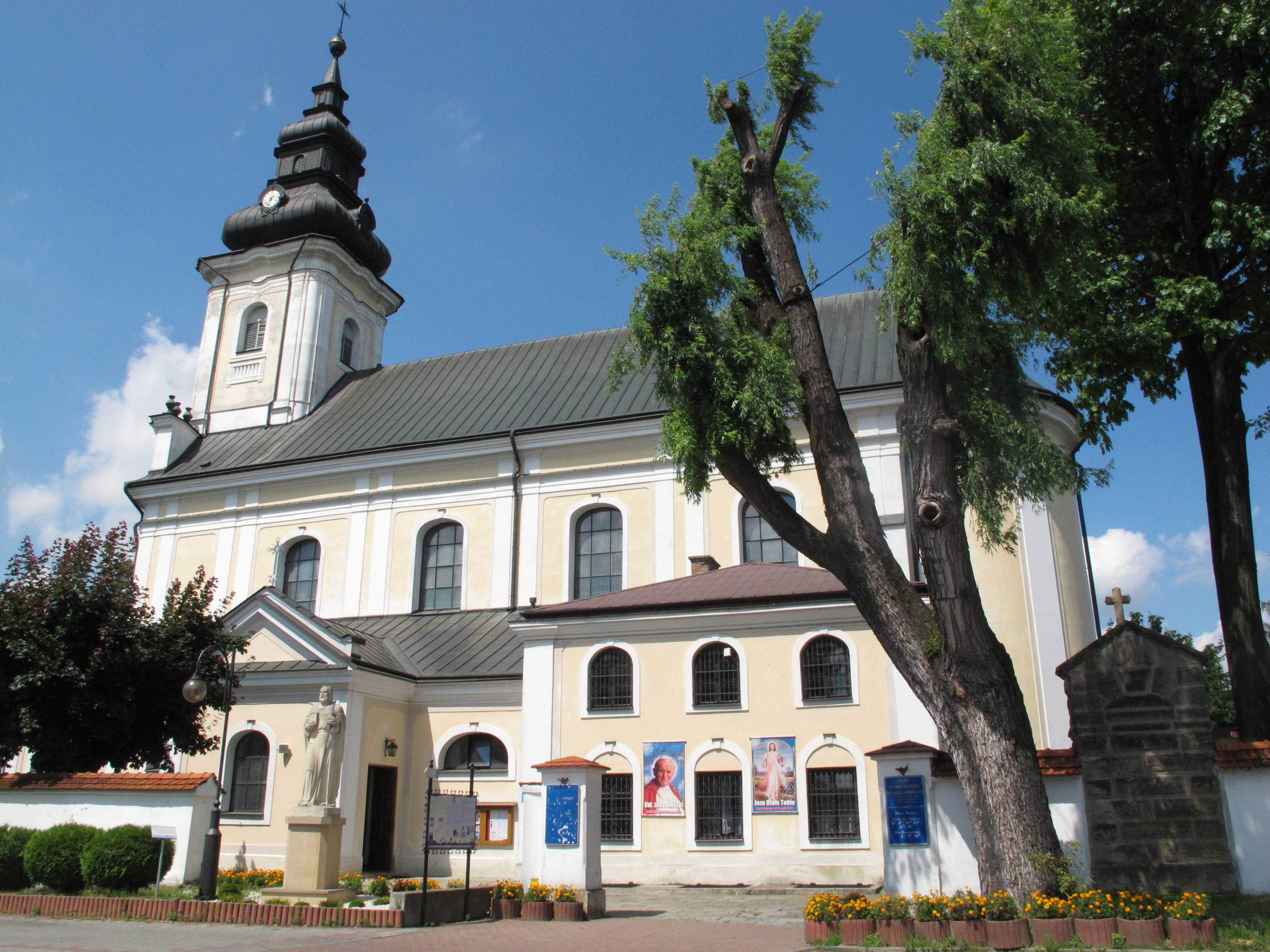 Tuchów - St. James' church